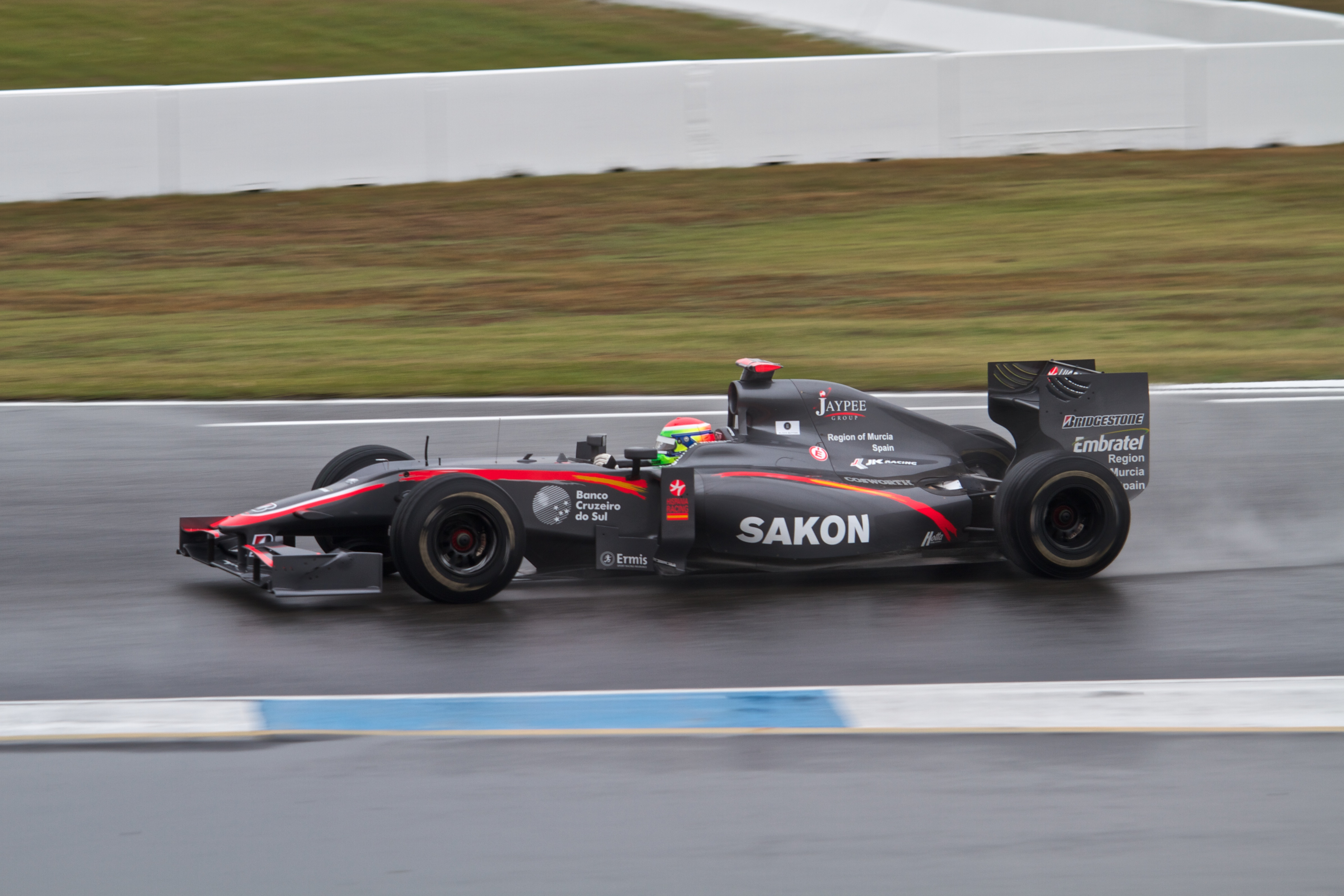 Sakon Yamamoto driving for Hispania Racing at the 2010 German Grand Prix.